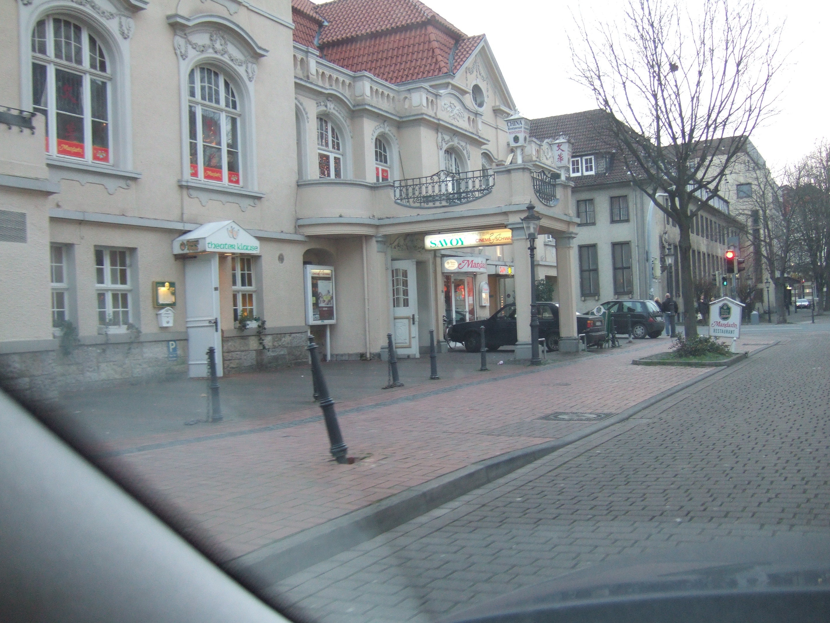 Savoy and Cinema am Schwan Cinema in Minden, Nordrhein-Westfalen